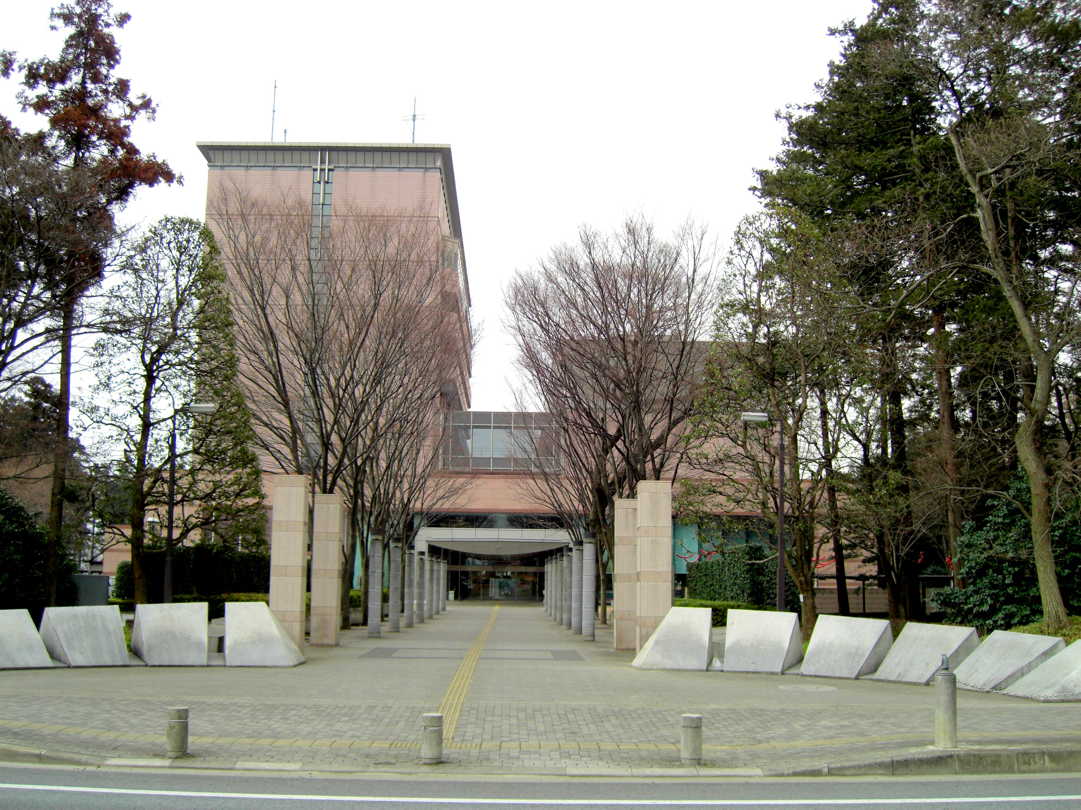 Noda City Hall